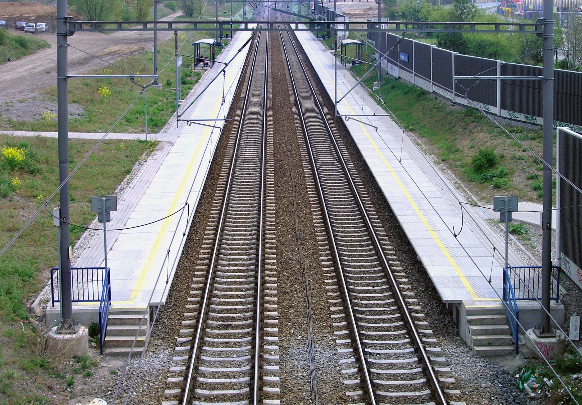 Railway station at Horní Měcholupy, Prague